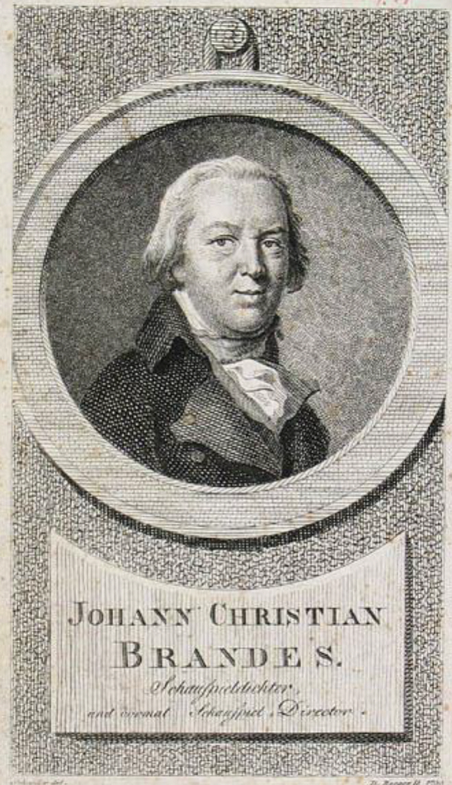 Johann Christian Brandes (* 15 November 1735, † 10 November 1799), German actor and poet